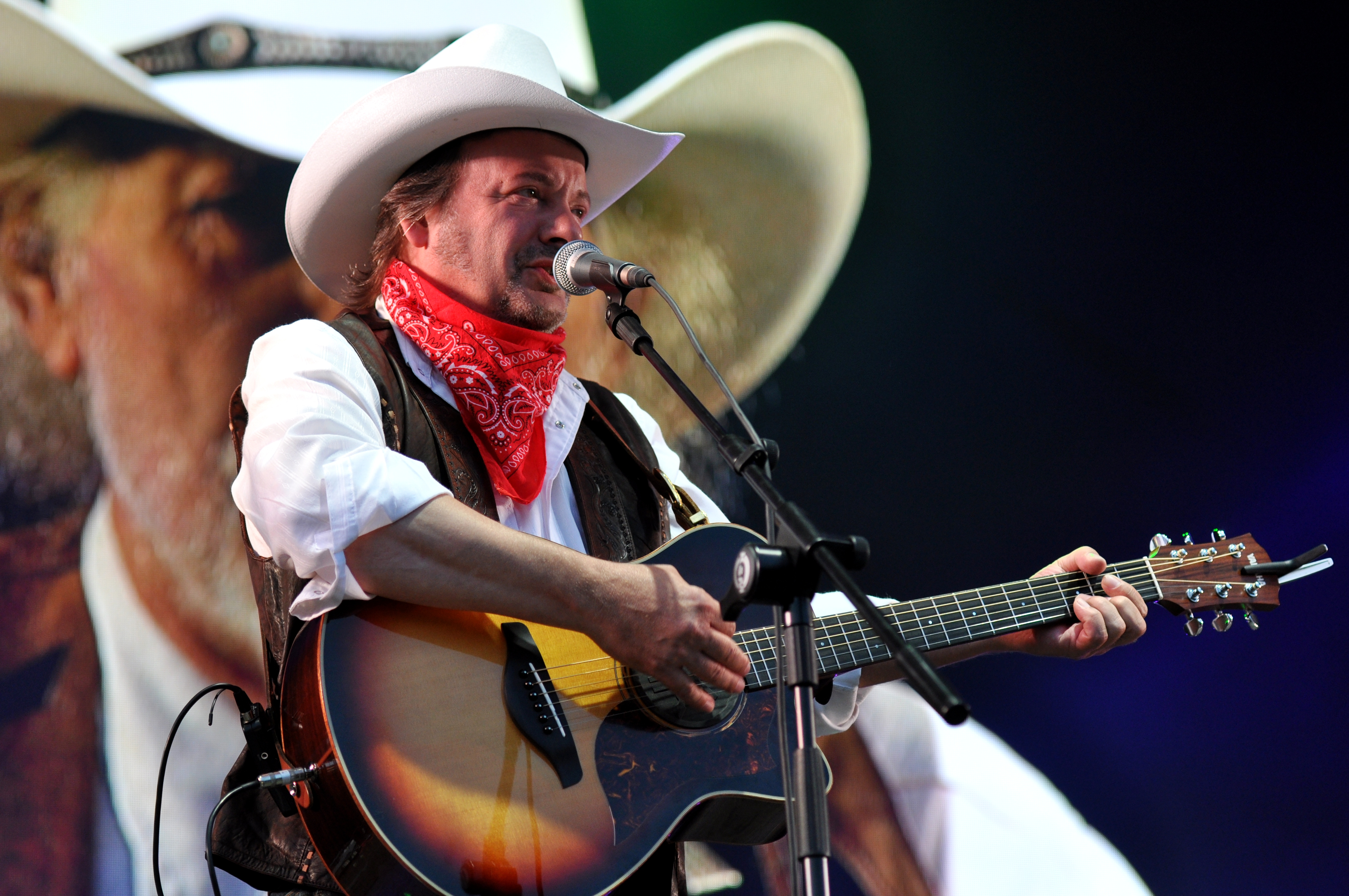 Country musician Andreas Cisek of Truck Stop at the International Truck Grand Prix Country Festival 2013, Nürburgring, Germany